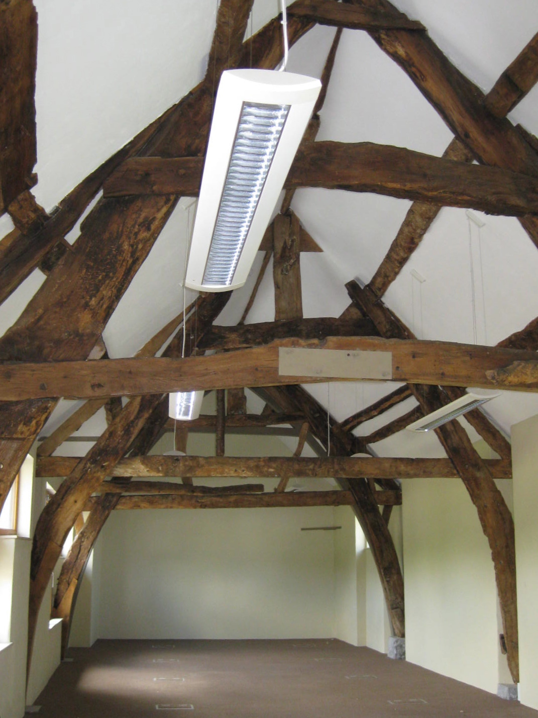 Cruck Barn at Ty-coch, Llangyhafal, Denbighshire. Dendrochronologically dated to 1430.